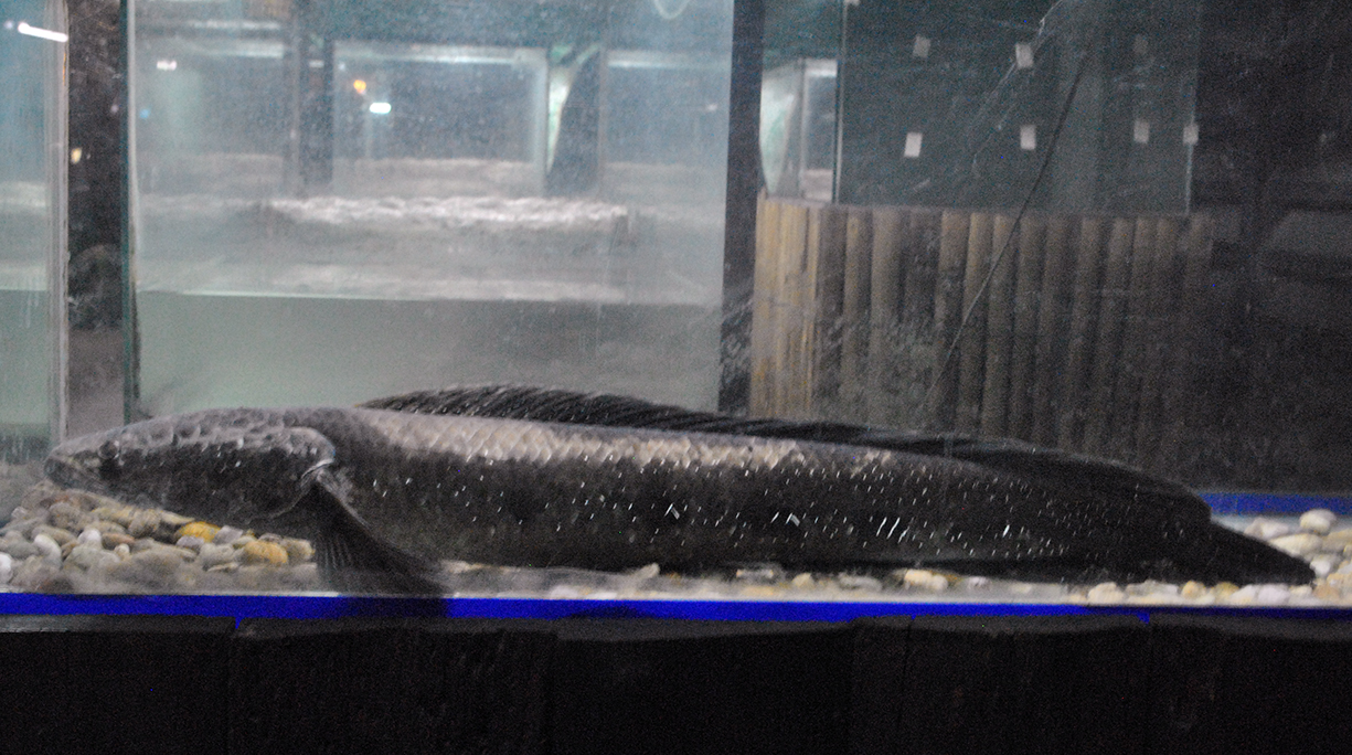 Channa aurolineatus in Pata Zoo